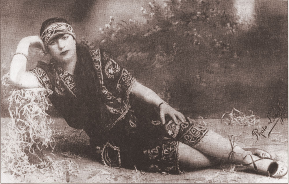 Peruz (1866-1920), an Ottoman Armenian singer.